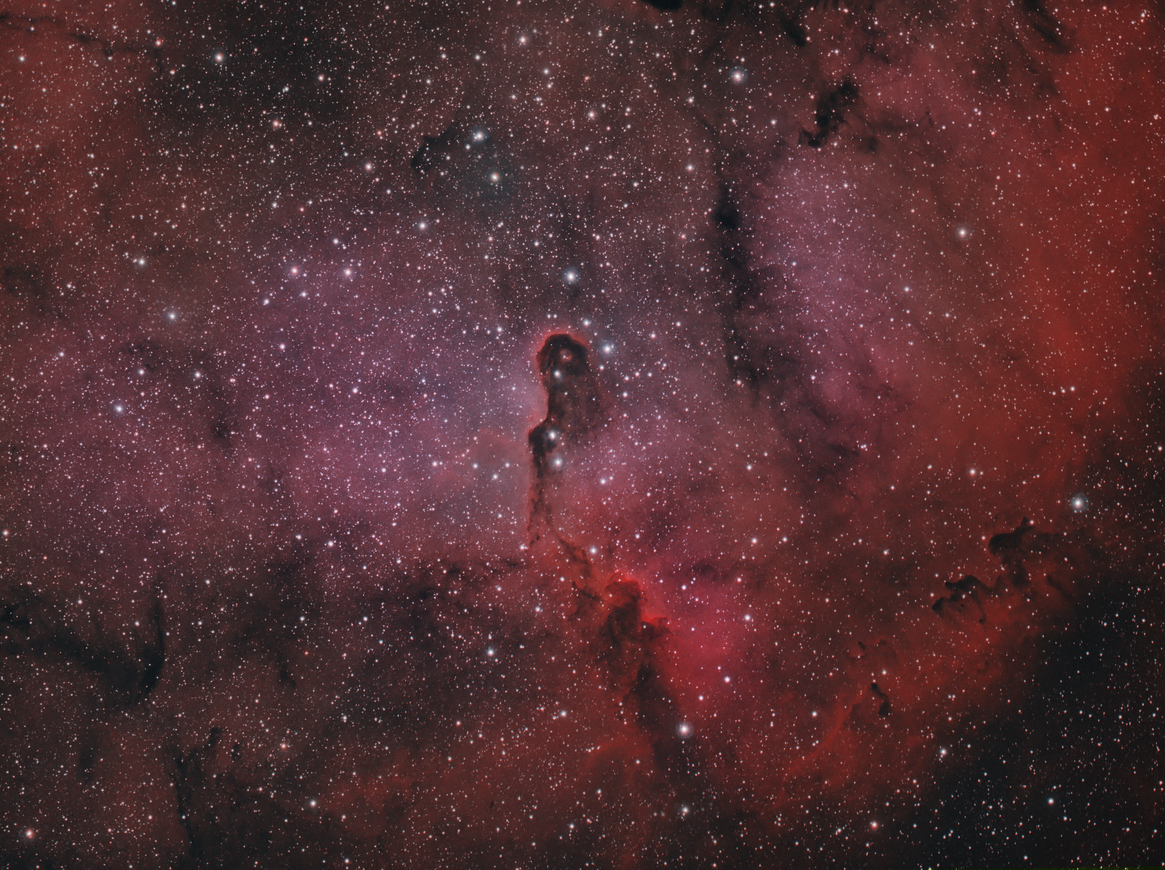 Elephant Trunk Nebula captured in Hydrogen Alpha and in Oxygen